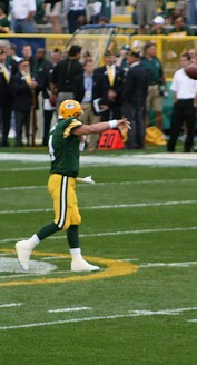 Pre-game warmups at the Philadelphia Eagles vs. Green Bay Packers game. - 9/9/07 at Lambeau field.